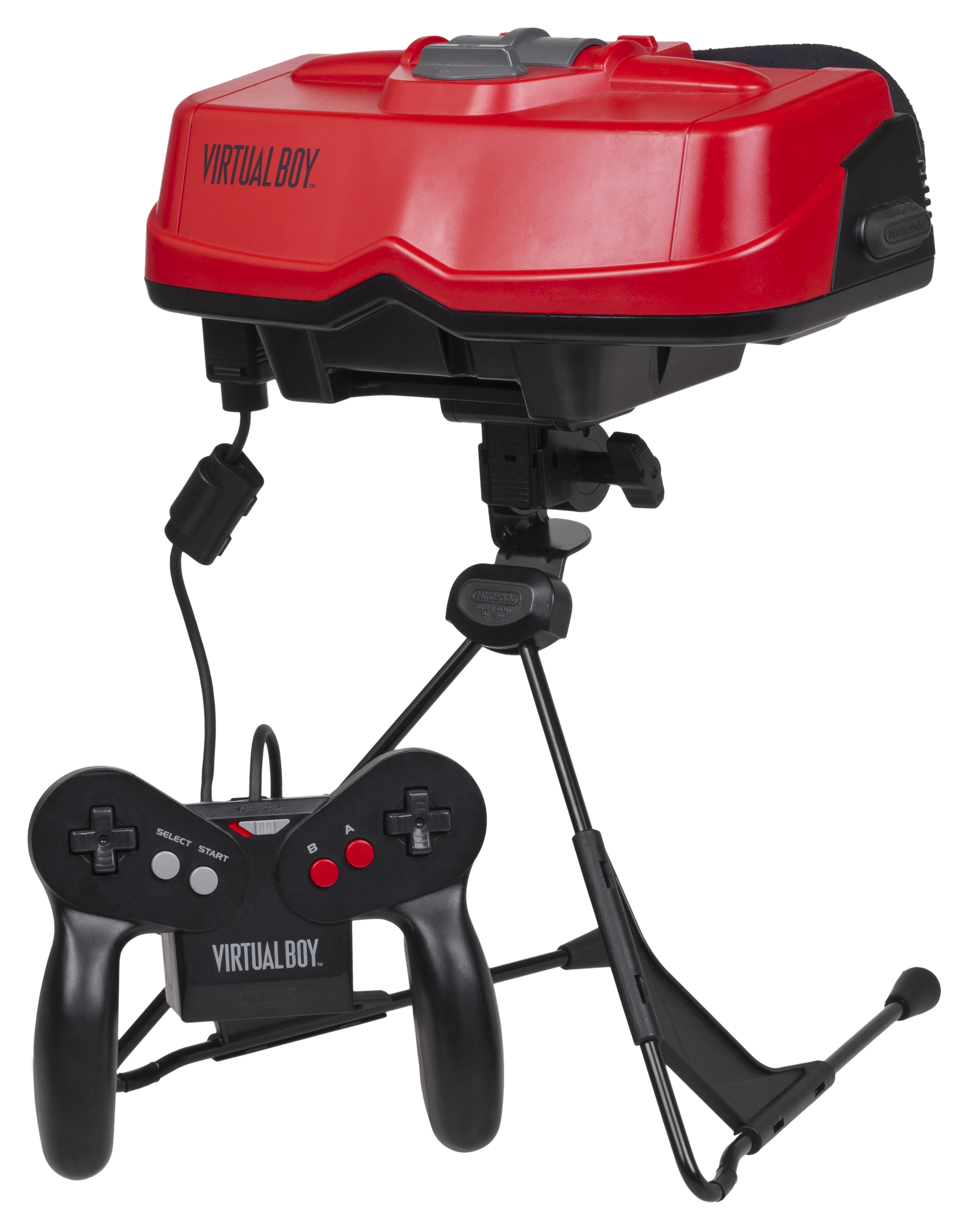 A North American Virtual Boy game console, made by Nintendo. A system that let you see in 3-D by use of individual red and black LCD screens for each eye. The system was a commercial failure for Nintendo.